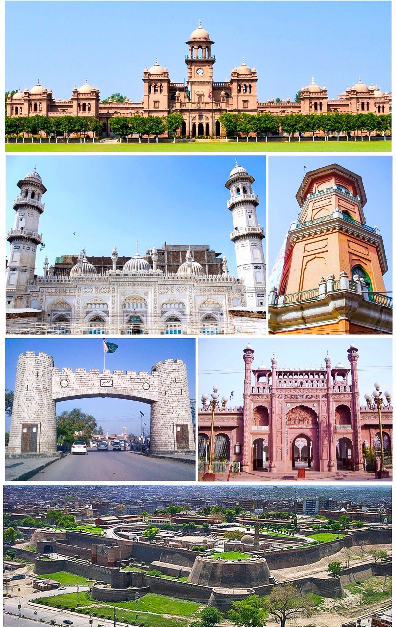 A collection of photos from Peshawar